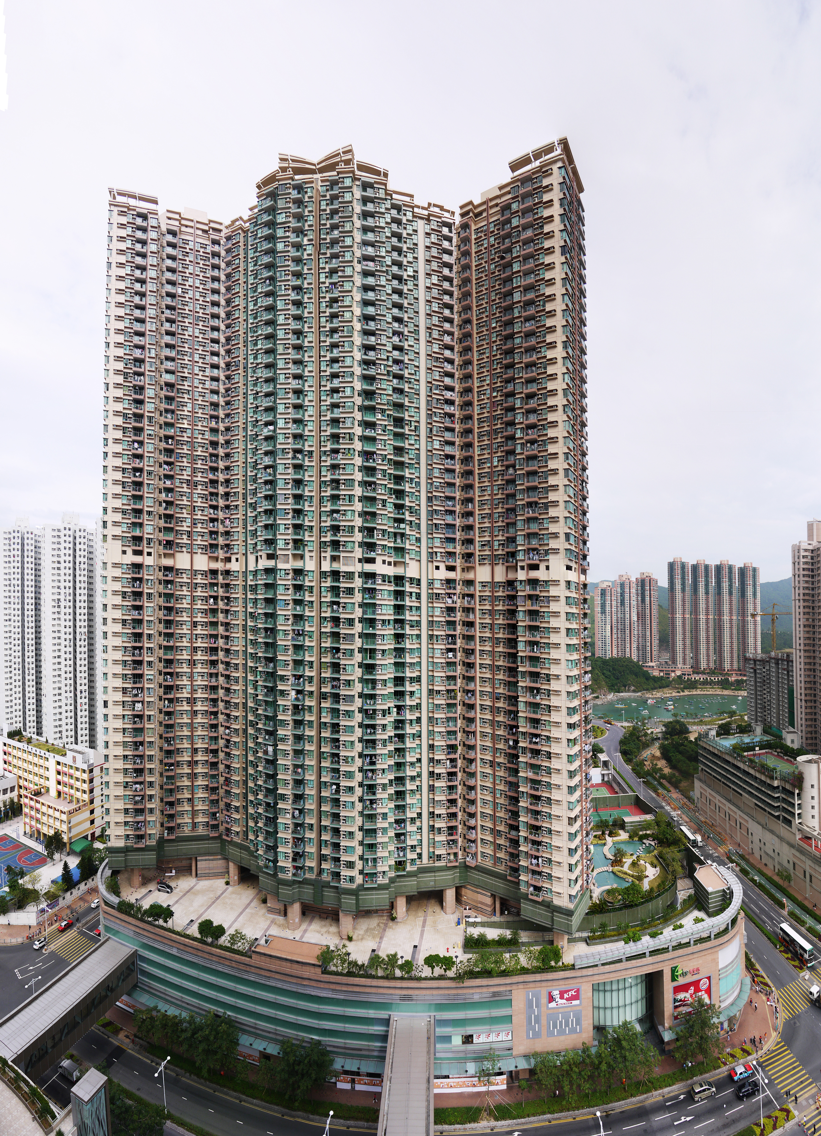 Tko55c Tko55c